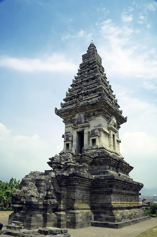 Candi Jawi, Prigen, Pasuruan, Jawa TImur.